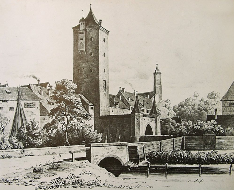 Biberach an der Riß, Ehingen Tower, before 1877